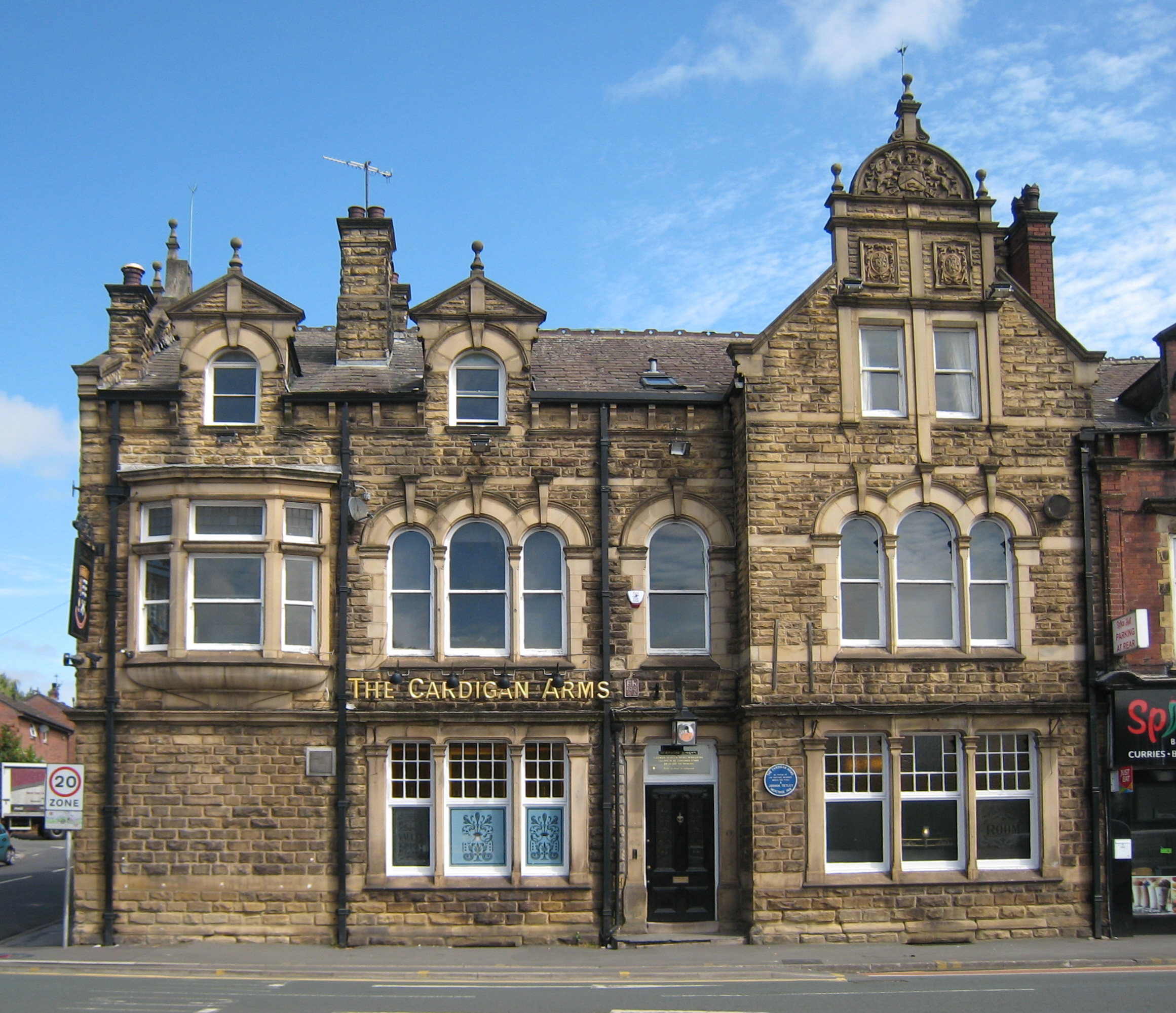 The Cardigan Arms, 364 Kirkstall Road, Leeds LS4 2HQ, without an annoying white van parked outside